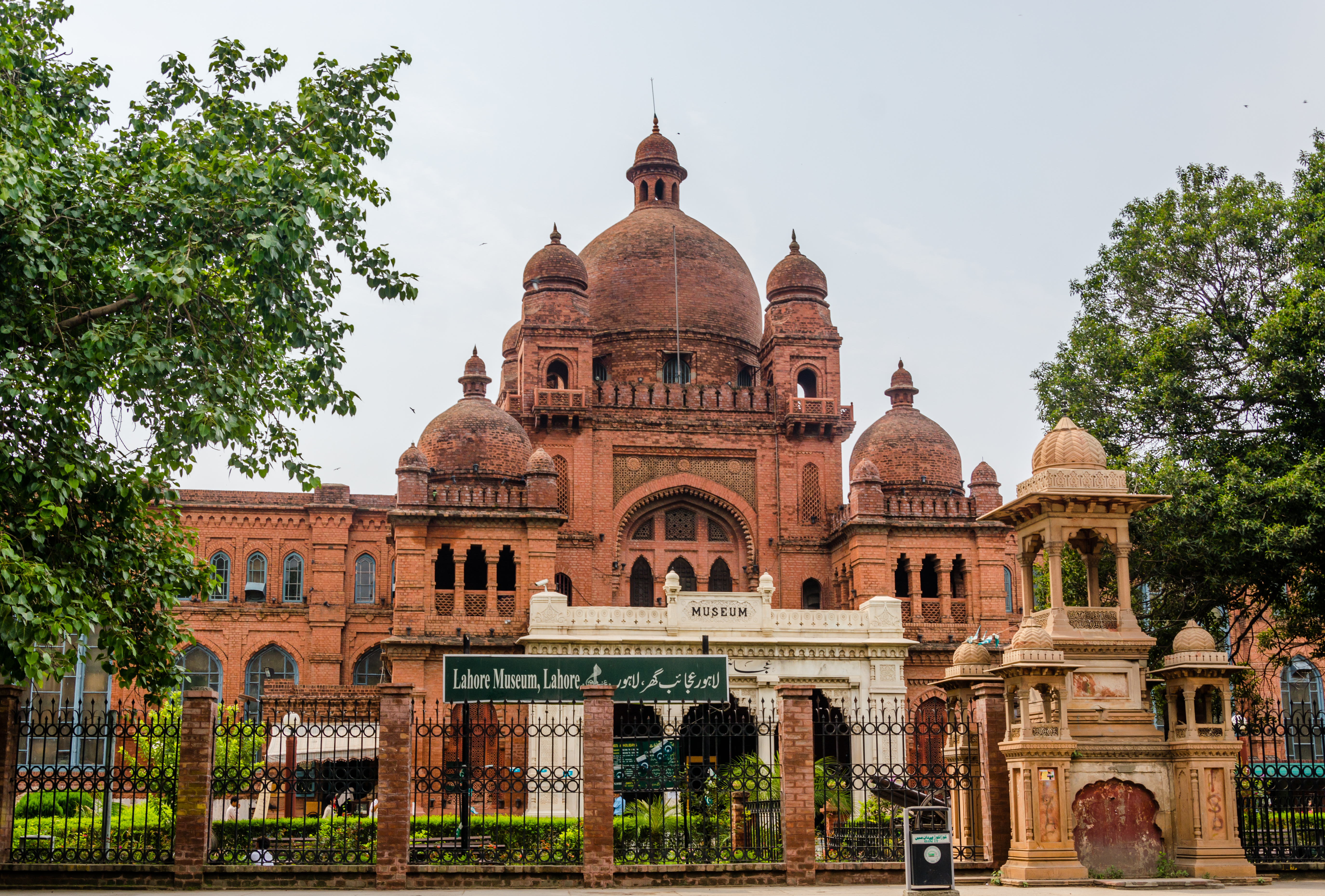 Lahore Museum This is a photo of a monument in Pakistan identified as the PB-94